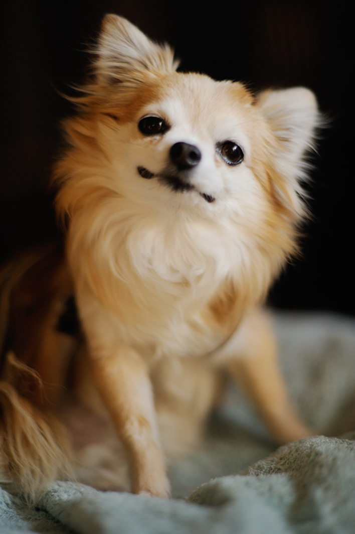 F1.4 1/640sec, iso800 ViewNX/SD